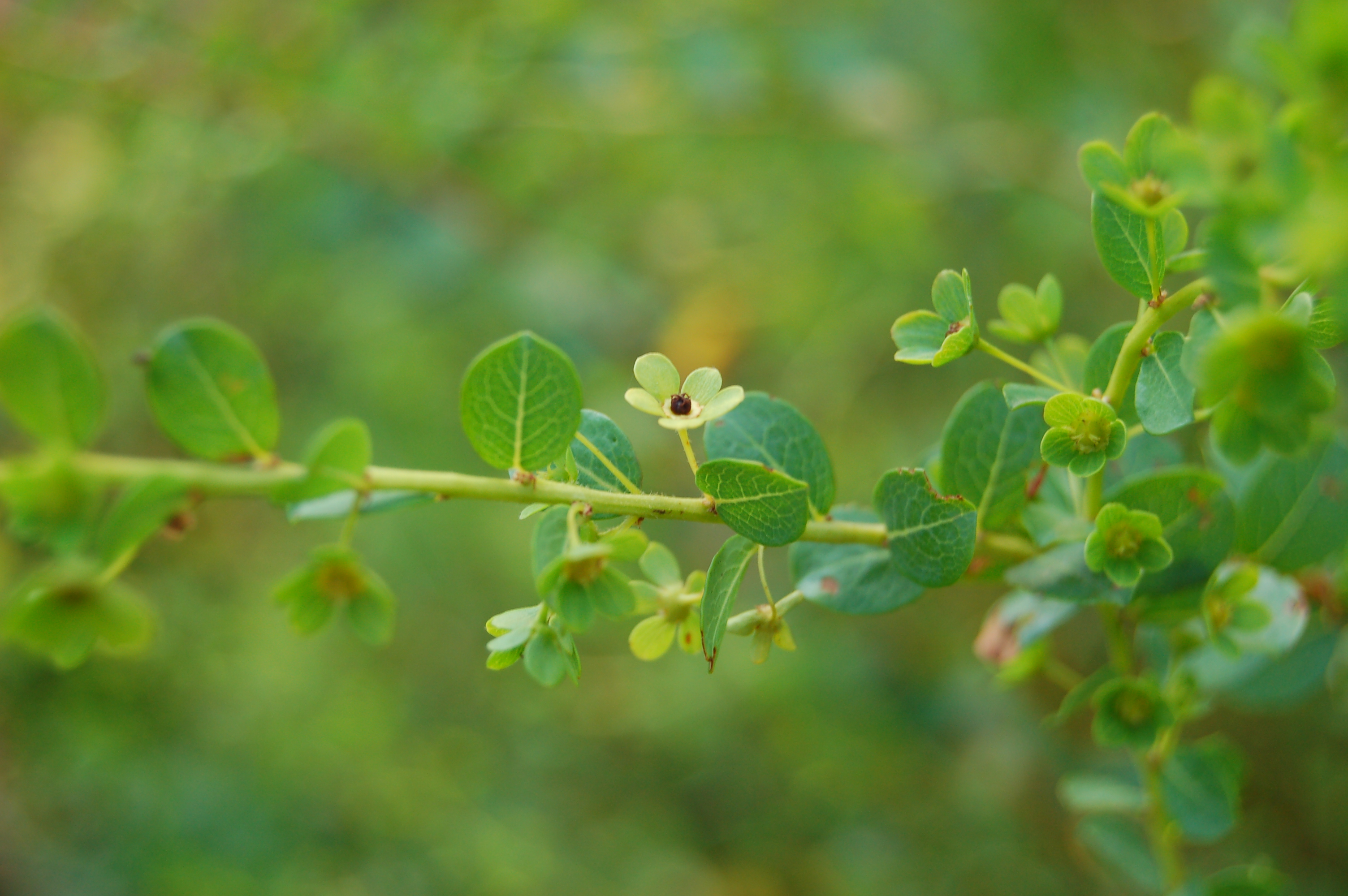 Photograph of the flower of Andrachneen (Andrachne phyllanthoides en ). Photo taken at the Tyler Arboretum where it was identified.